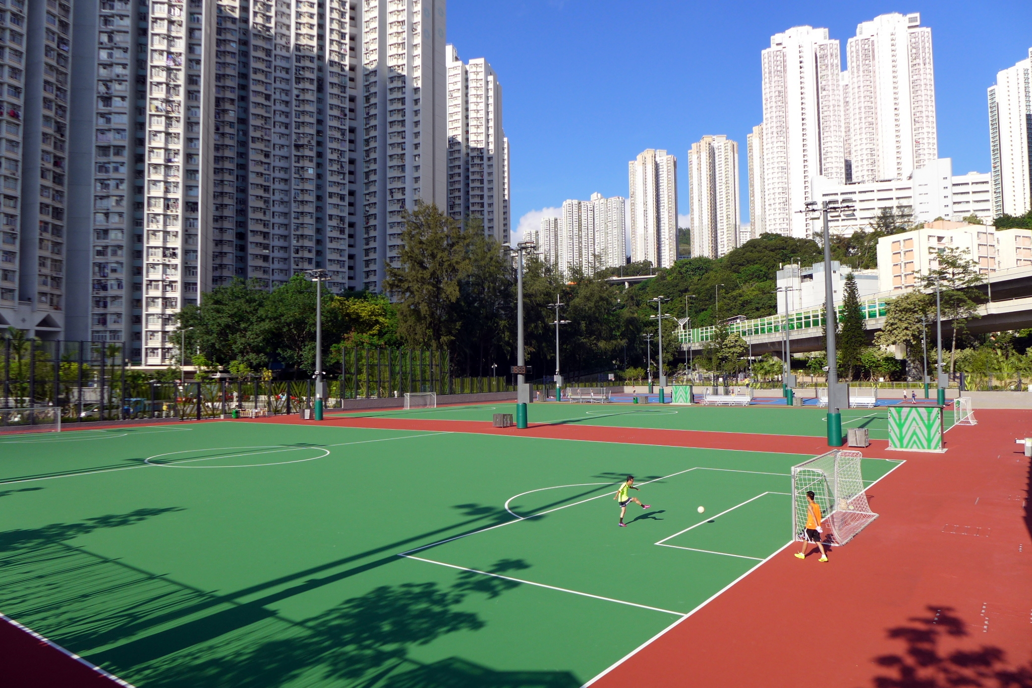 Kwun Tong Recreation Ground